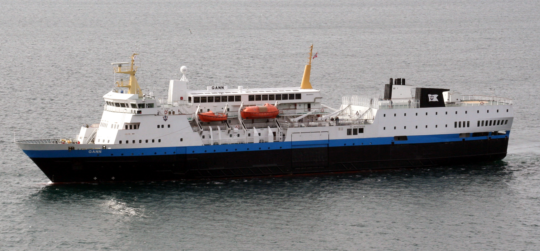 MS Gann about to dock at Ålesund harbour. IMO Number: 8019344 MMSI Number: 258210000 Callsign: LLNV Length: 108 m Beam: 16 m